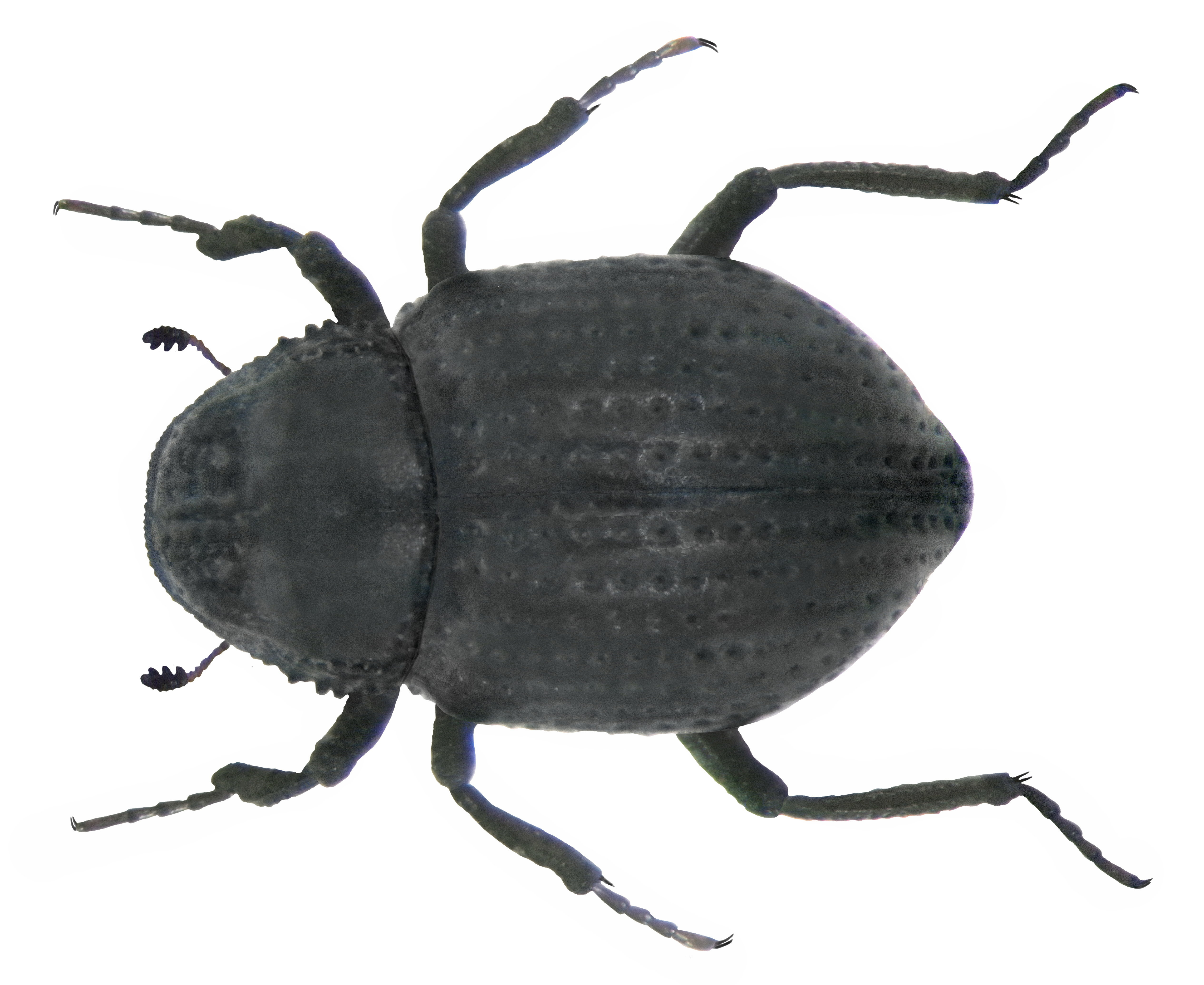 Dorsal view of an adult Georissus crenulatus, a species of beetle in the family Georissidae Familie: Georissidae Groesse: 1,5-2,1 mm Verbreitung: Europa Ökologie: an sandigen und schlammigen Ufern von Gewässern Fundort: Germania, Bayern, Unterfranken, Kitzingen leg.det. A.Skale, 1999 Photo: U.Schmidt, 2009